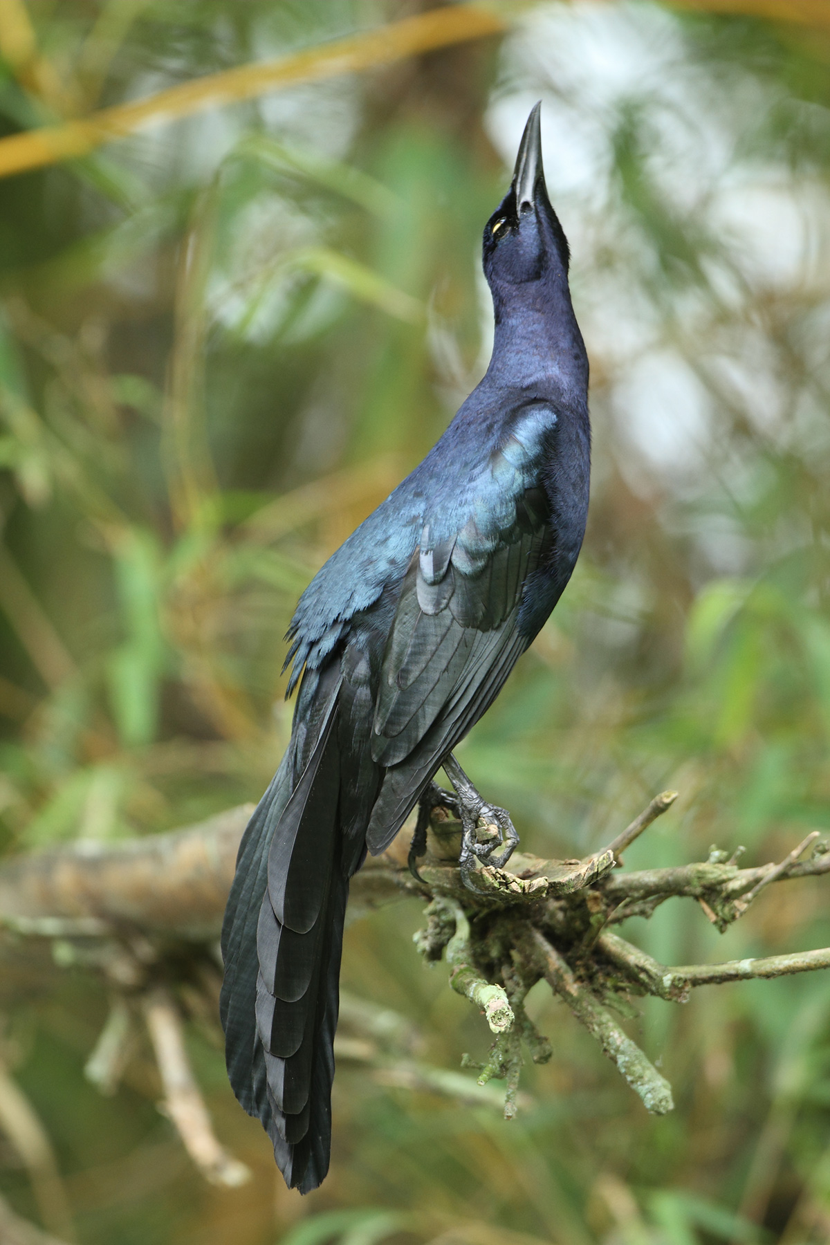 Great-tailed grackle (Quiscalus mexicanus), CATIE, Turrialba, Costa Rica